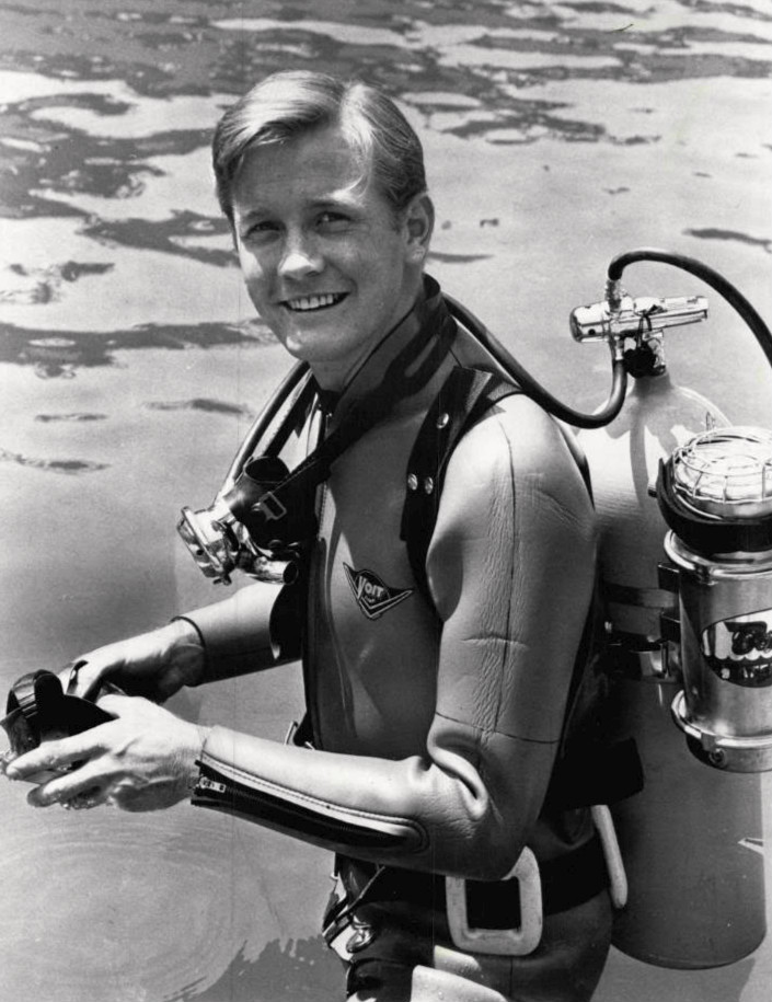 Photo of Allan Hunt as Stuart Riley from the television program Voyage to the Bottom of the Sea.